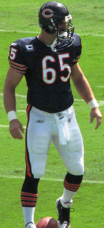 Chicago Bears long snapper Patrick Mannelly warming up prior to the game against the Carolina Panthers on September 14, 2008.